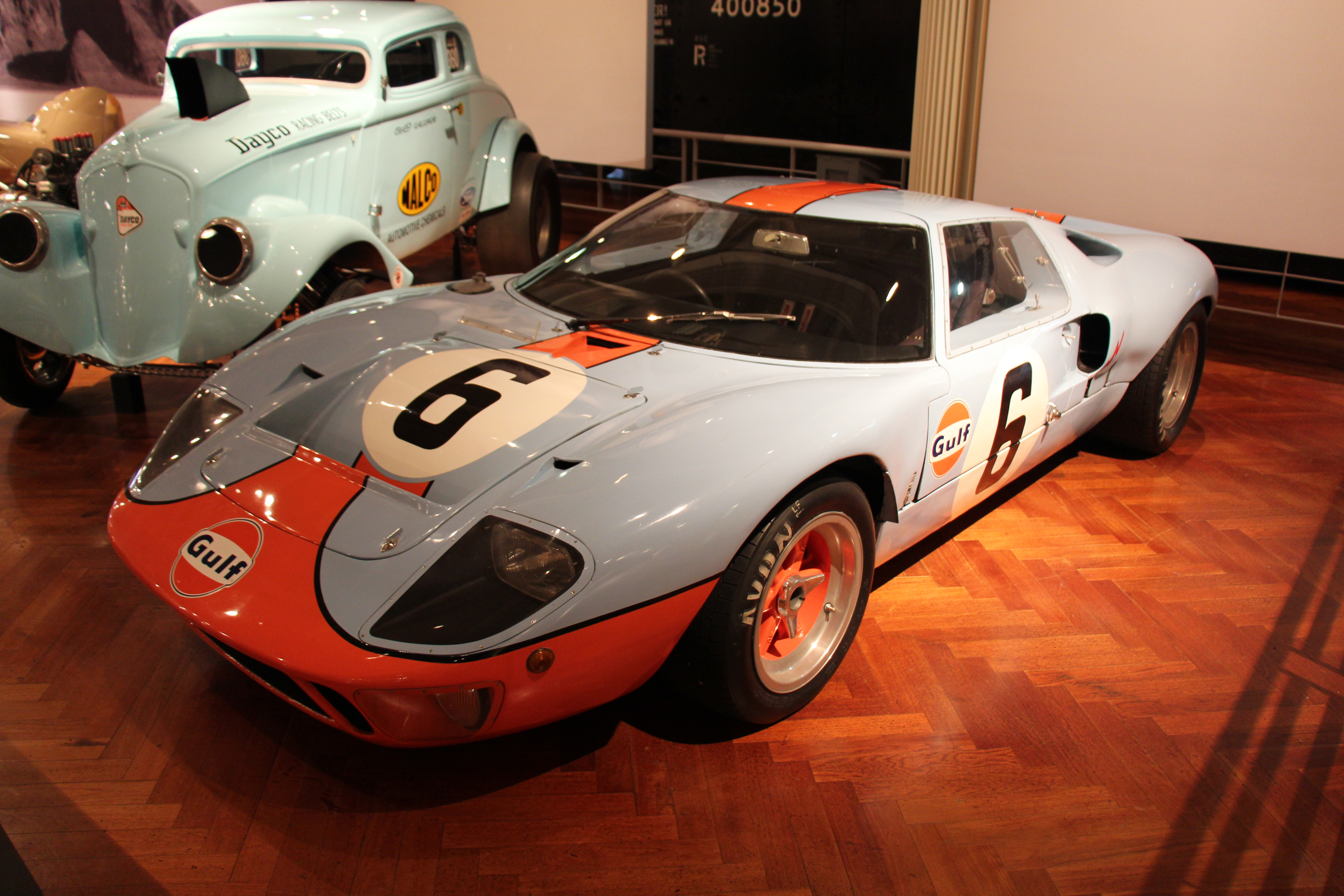 The Ford GT40 was a high performance sports car, designed to put an end to Ferraris dominance in long-distance sports car races. The car was named the GT (for Grand Touring) with the 40 representing its overall height of 40 inches. First introduced in 1964, by 1966 the job was done; won the 24 Hours of Le Mans four consecutive times, from 1966 to 1969, taking the title from Ferrari. 1966 winners; Bruce McLaren and Chris Amon in a Mk II. (Kiwis) 1967 winners; Dan Gurney and A.J.Foyt in a Mk IV. 1968 winners; Rodriguez and Bianchi in this Mk I 1969 winners; Jackie Icyx and Jackie Oliver in this Mk I The Mk Is were powered by 289 cu.in engines as used in the Ford Mustang, later cars got the 427 from the Galaxie. This GT40, chassis no 1075, was the car that won the race in 1968 and 1969. Photograph taken at the Henry Ford Museum, Dearborn